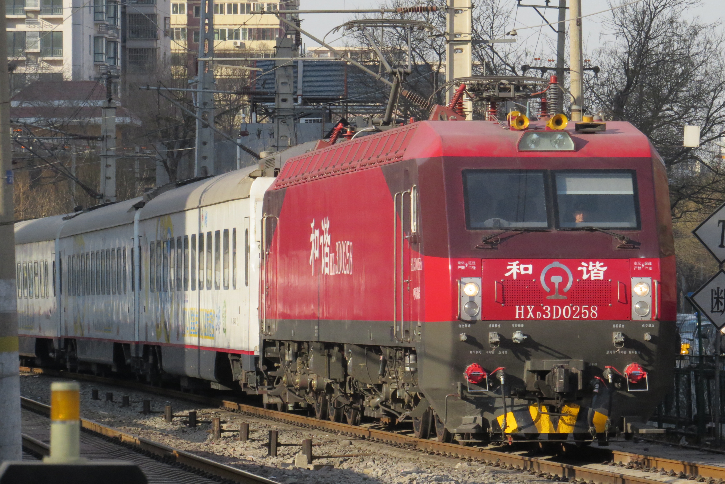 Z315 from Beijing West to Hohhot, with all white carriages promoting Yili milk (and the TV series Where Are We Going, Dad?).